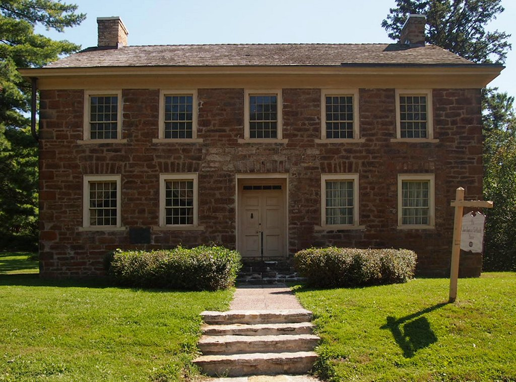 Jean-Baptiste Faribault House, Mendota Historic District, Mendota, Minnesota, USA